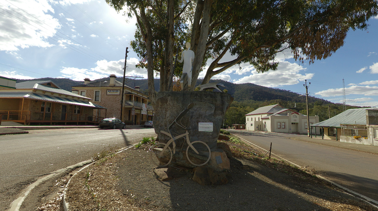 Town centre of Melrose, South Australia, showing old buildings, gum trees, Mount Remarkable and public sculpture of hiker and mountain biker.